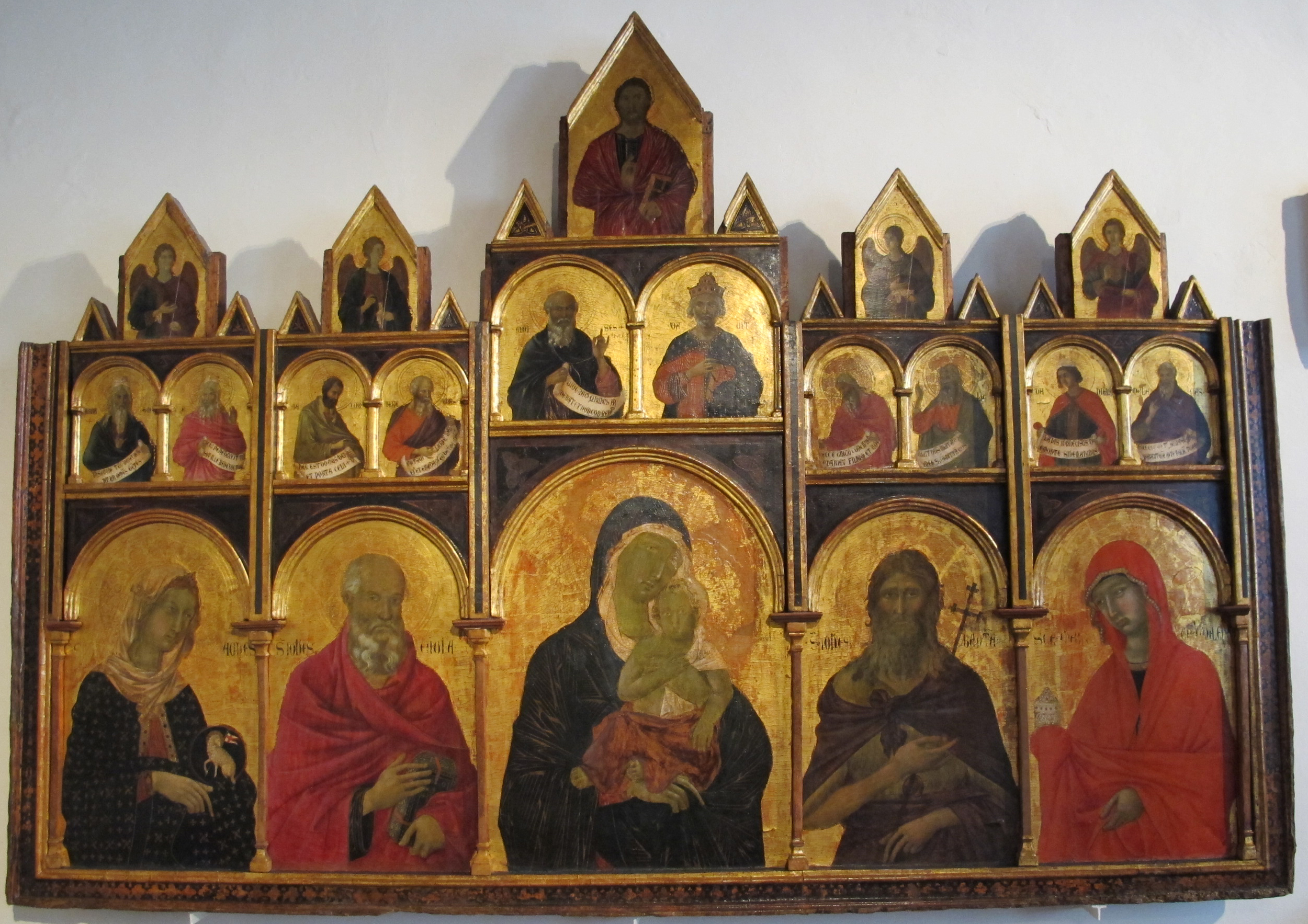 Sculpture in the National Pinacotheque, Siena